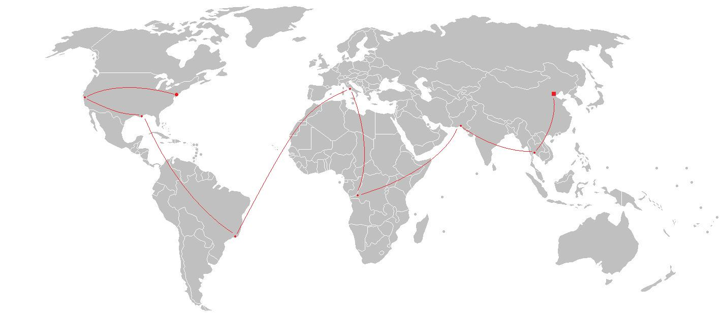 The path of the apocalyptic virus as described in the film 12 Monkeys. The cities are Philadelphia, San Francisco, New Orleans, Rio de Janeiro, Rome, Kinshasa, Karachi, Bangkok, Beijing (Peking)